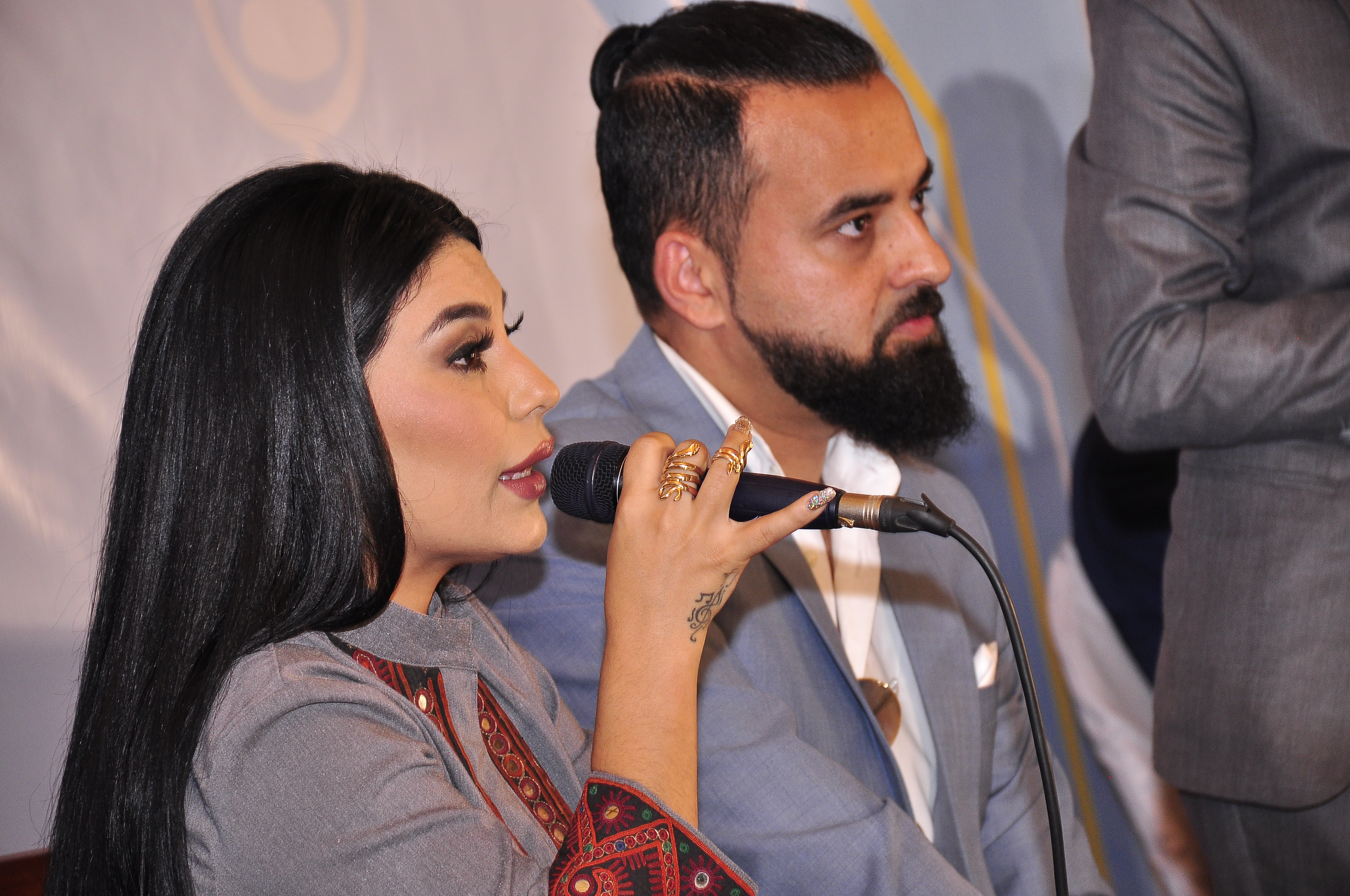 Aryana Sayeed gives her speech on how she uses social media for positive way.